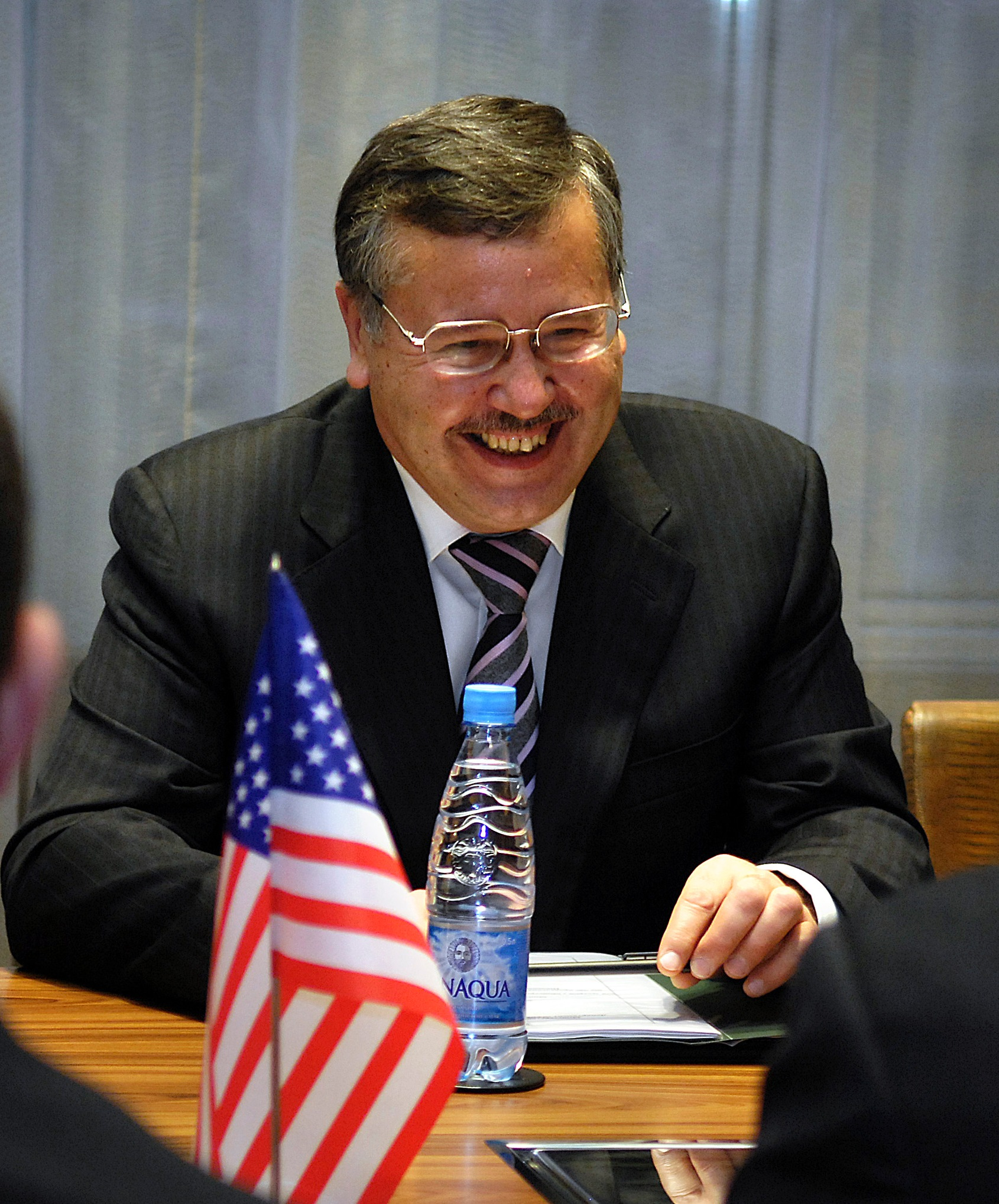 Minister of Defense Anatoliy Hrytsenko from Ukraine in 2007.